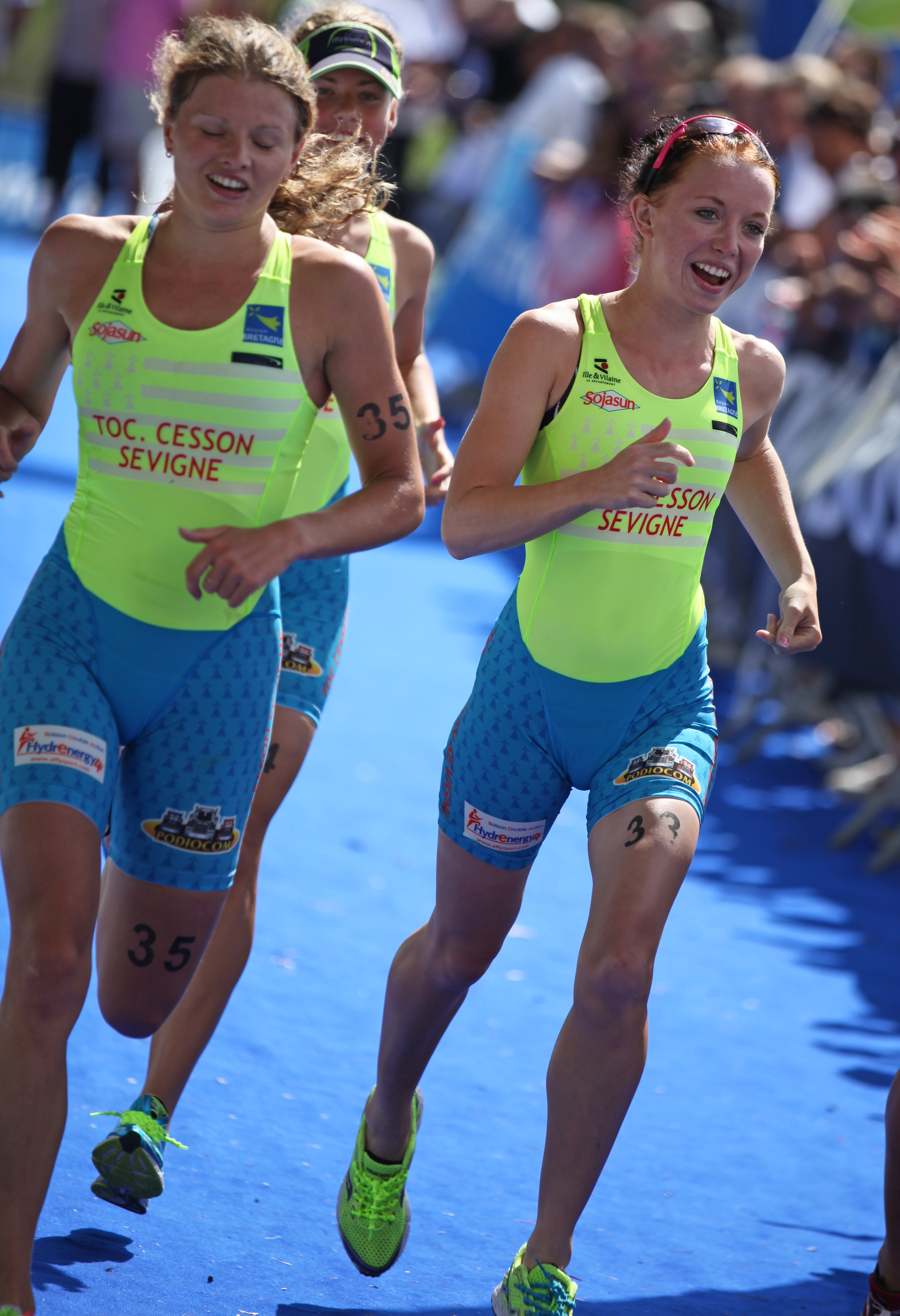 Charlotte McShane (far right) at the French Grand Prix triathlon (Lyonnaise des Eaux) in Tours (Tourangeaux), 2011.